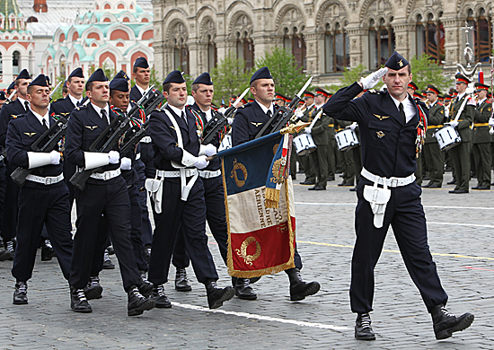 French troops in the Moscow Parade